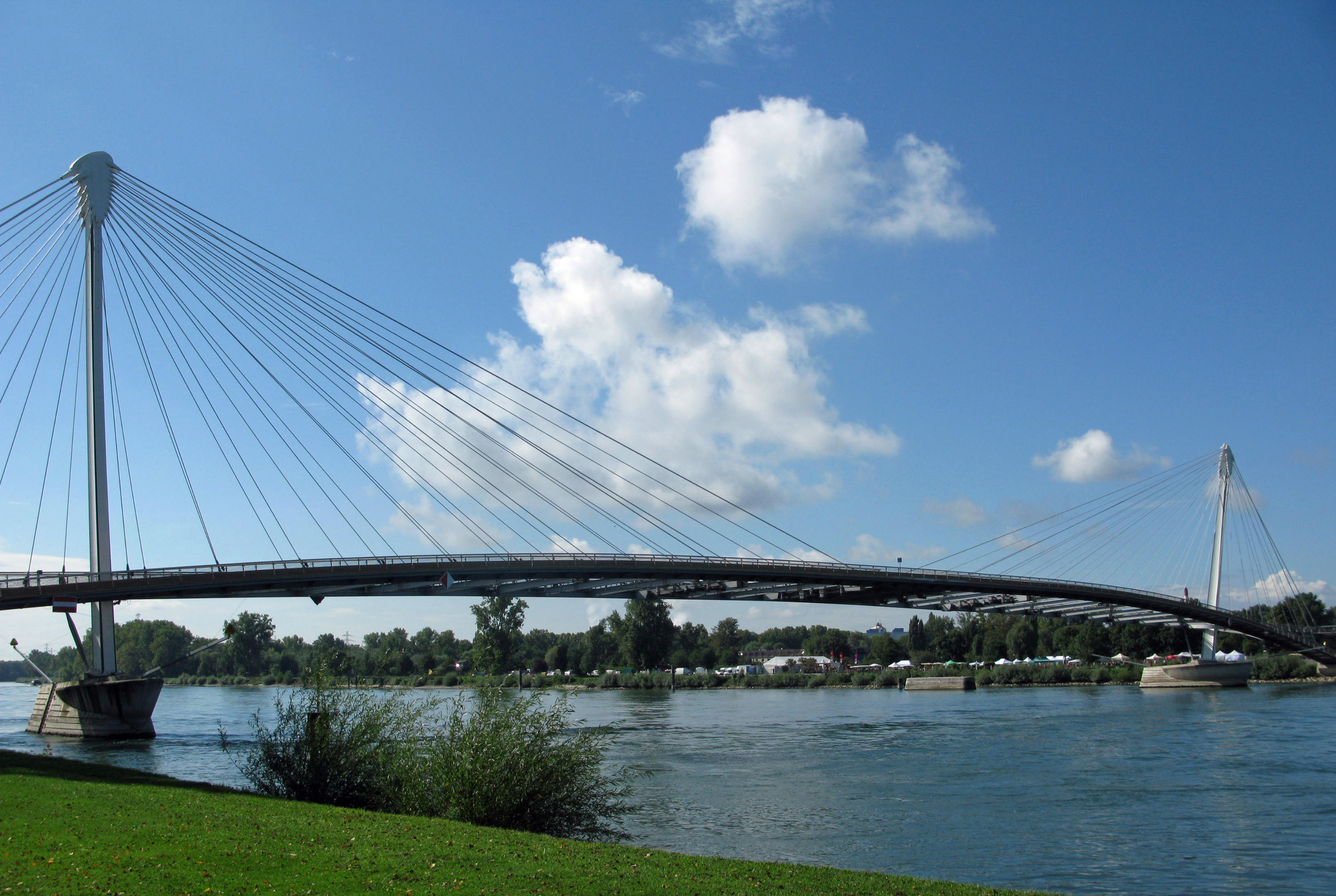 Passerelle Mimram or Passerelle des Deux Rives taken from the German side in Kehl.